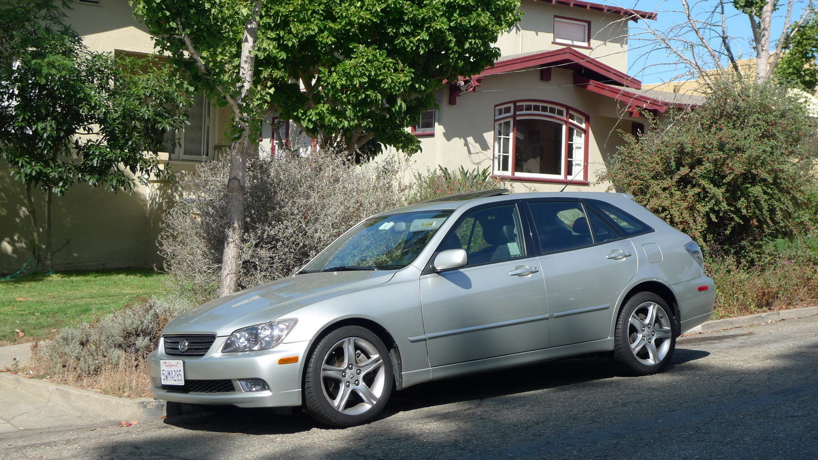 If I ever find a SportCross for sale with a manual transmission, I will be in great danger of buying it.